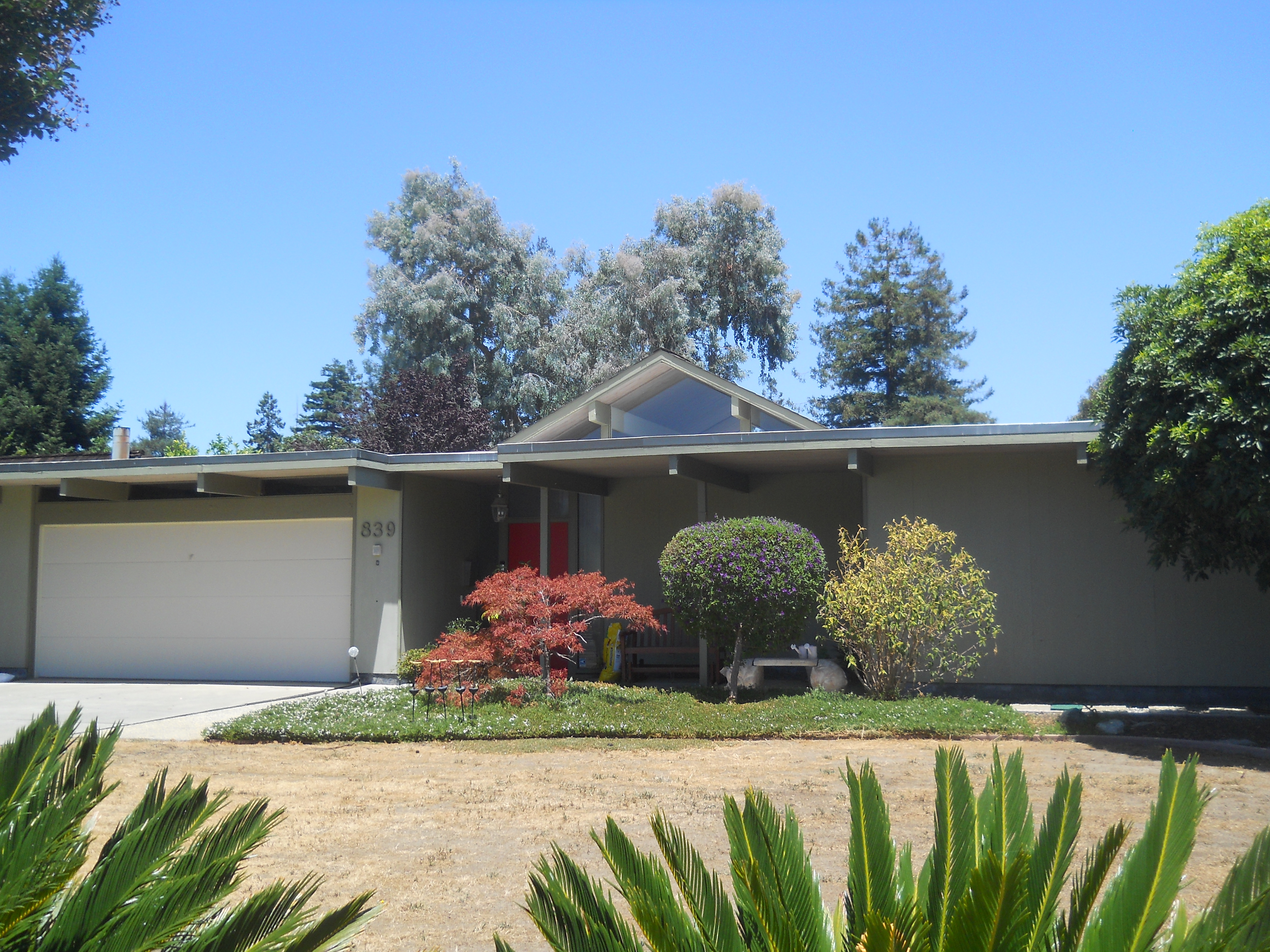 1967 Eichler house in Parmer Place tract, Sunnyvale, California